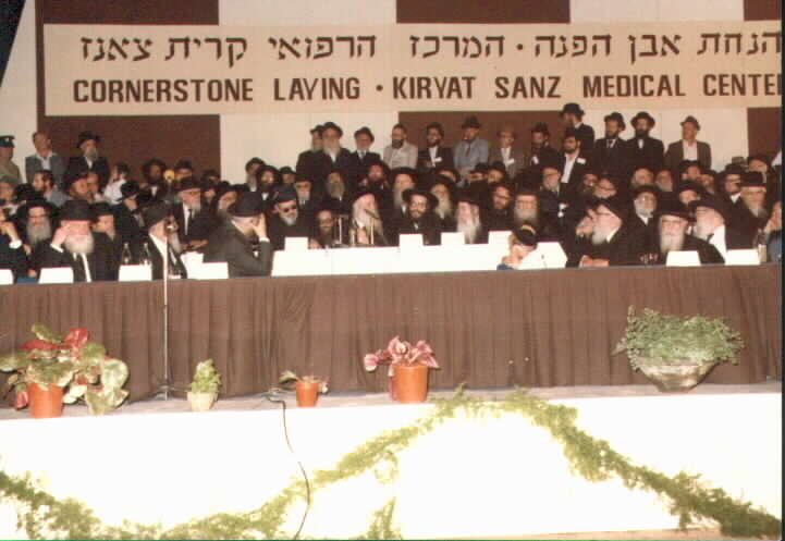 Laniado Hospital, Israel. The Founder at the Corner Stone Laying Ceremony in 1974